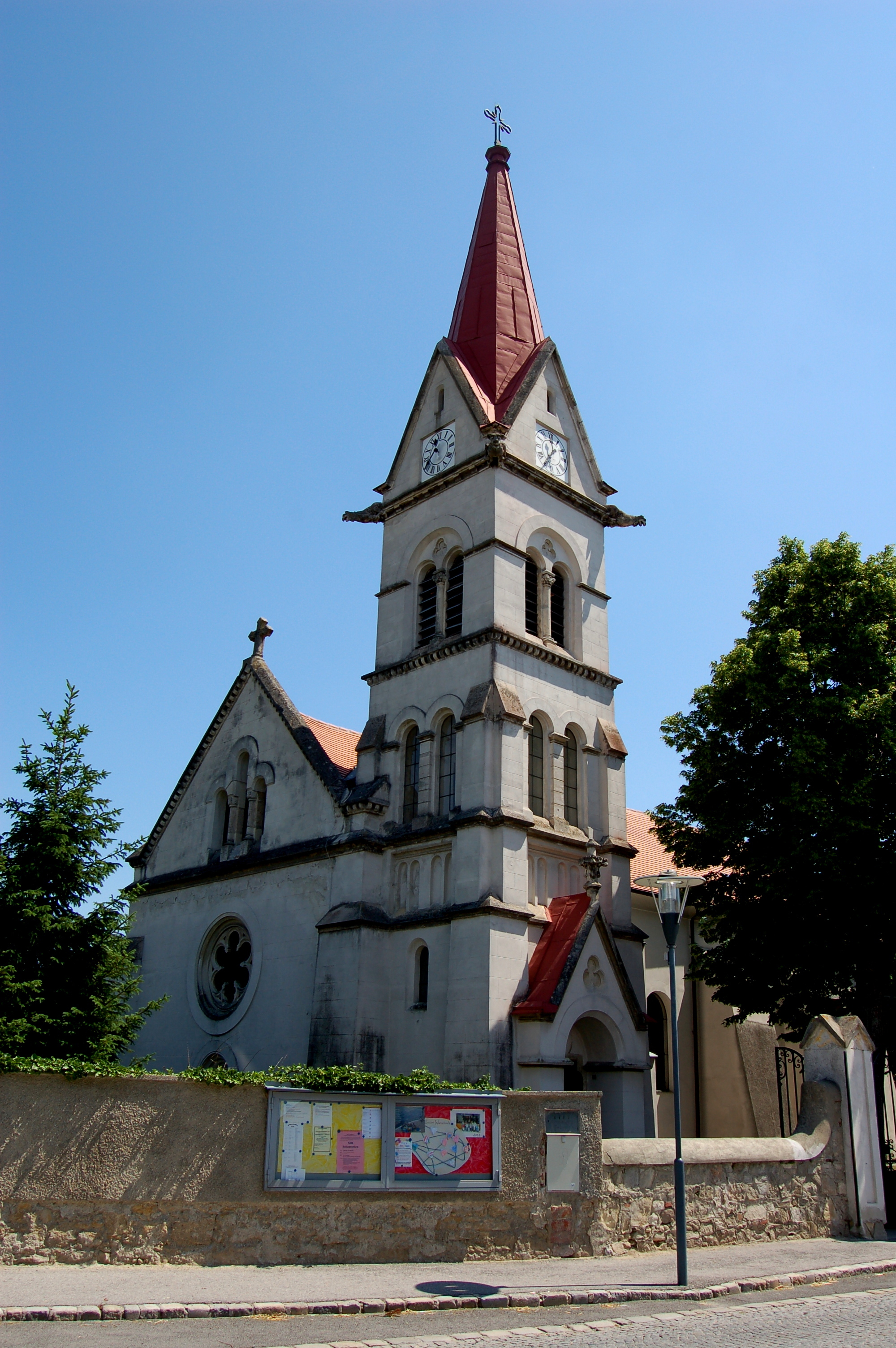 St. George parish church in Zillingdorf, Lower Austria